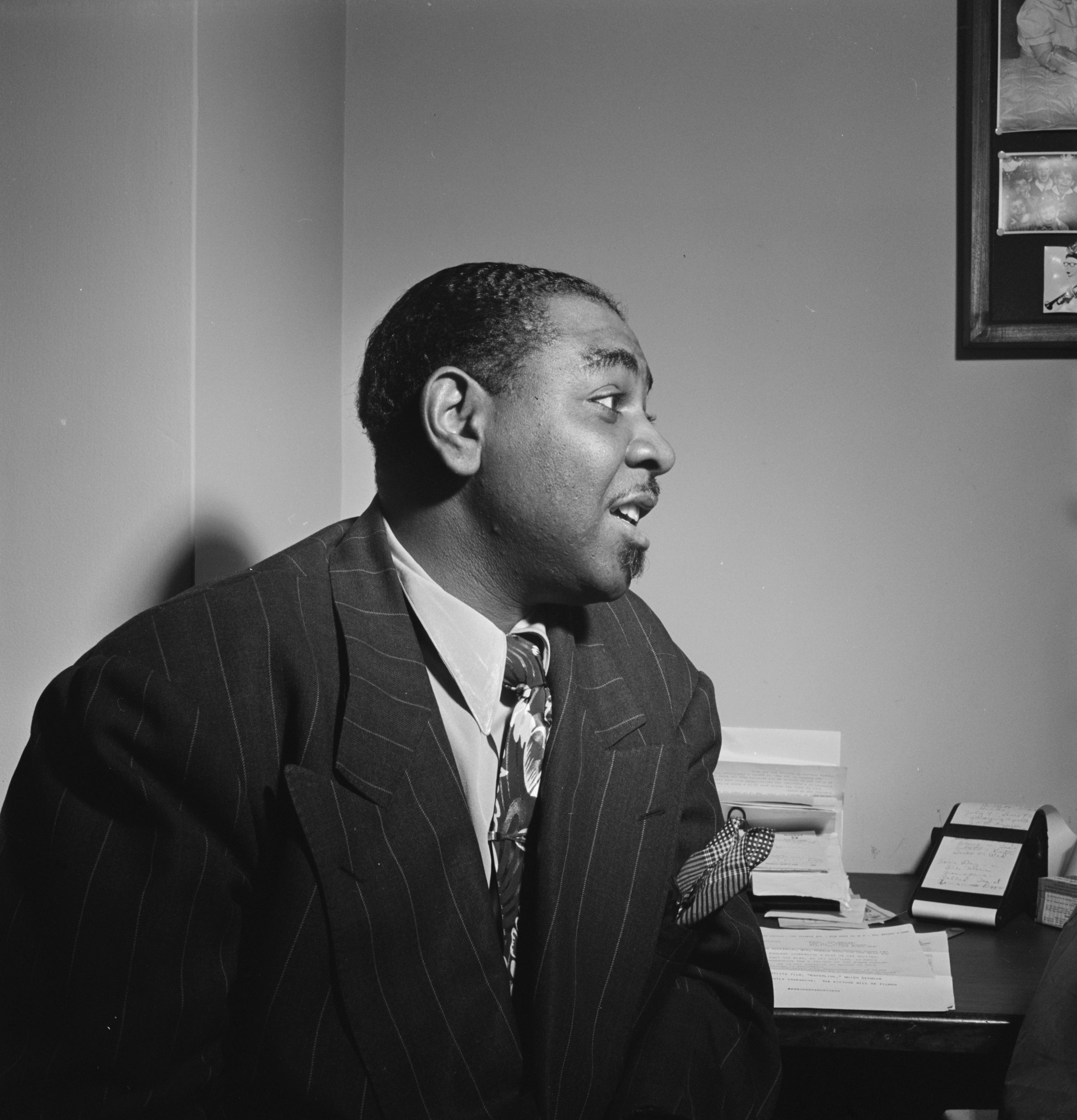 Portrait of Tyree Glenn by William P. Gottlieb, ca. 1947.